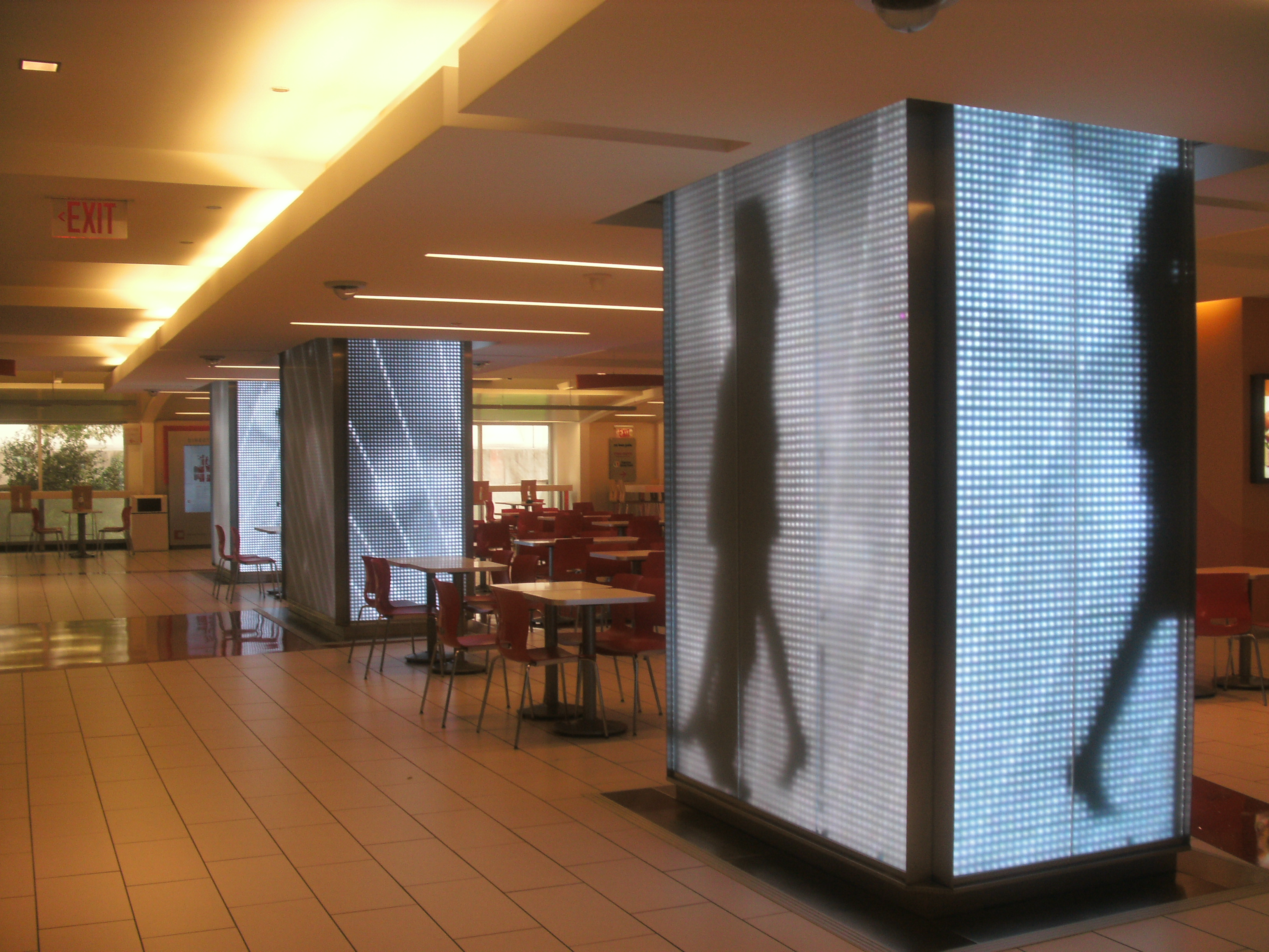 La Promenade at L'Enfant Plaza, seen on a Sunday afternoon in May, 2015 GEDSC DIGITAL CAMERA